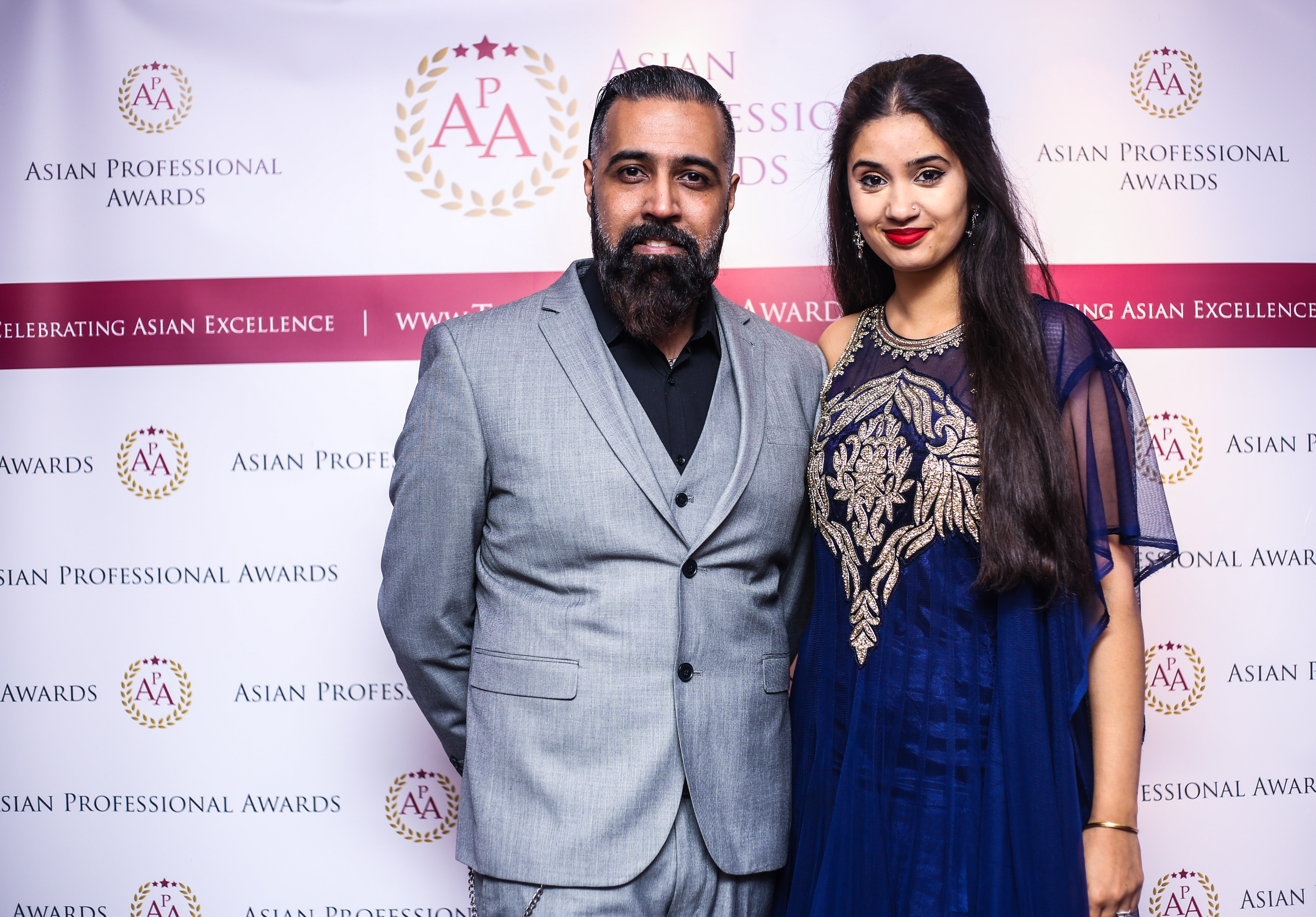 Sunny and Shay presenting the Asian Professional Awards in London in 2015